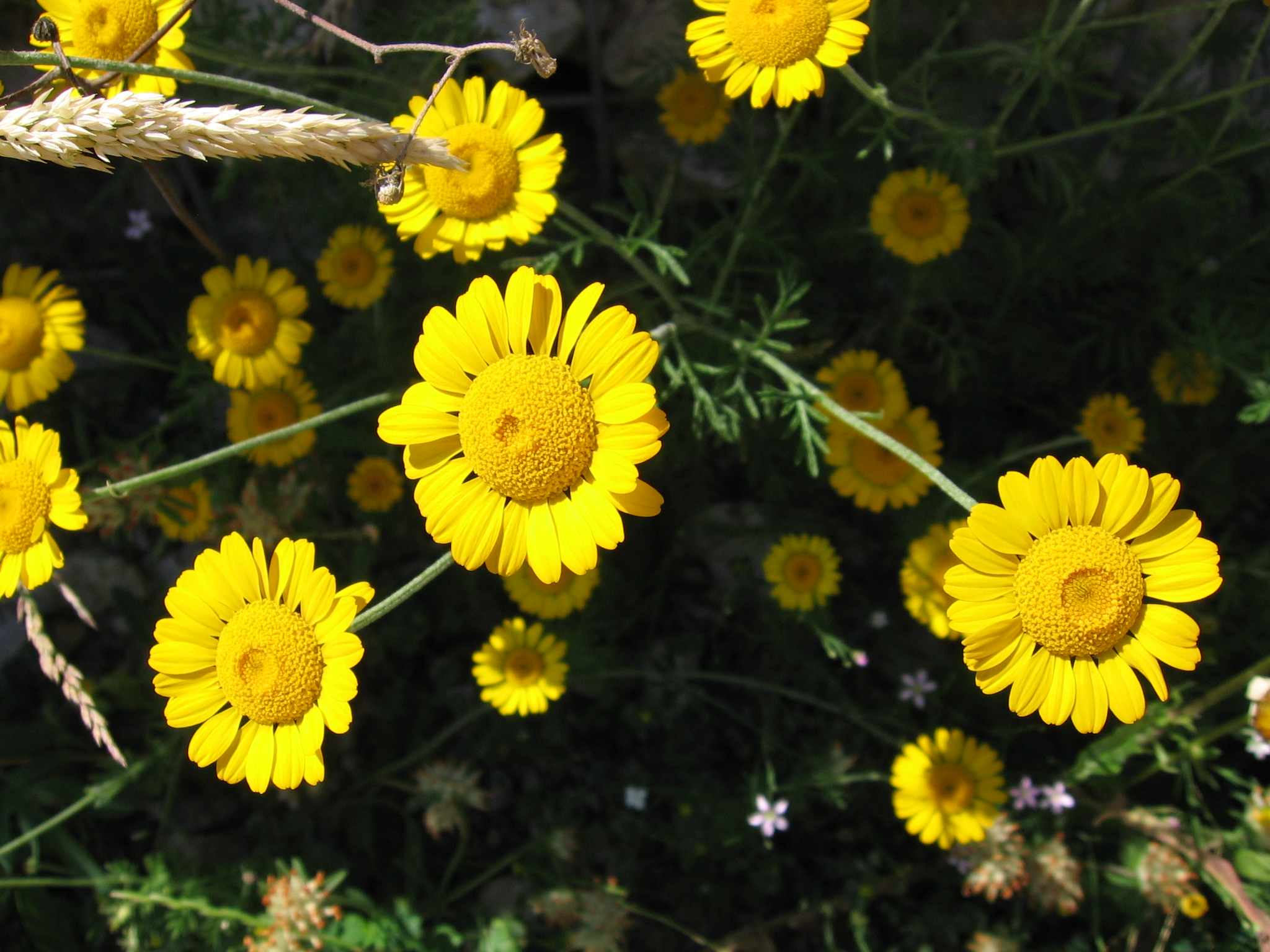 Anthemis tinctoria in the botanical garden in Štramberk, Czech Republic